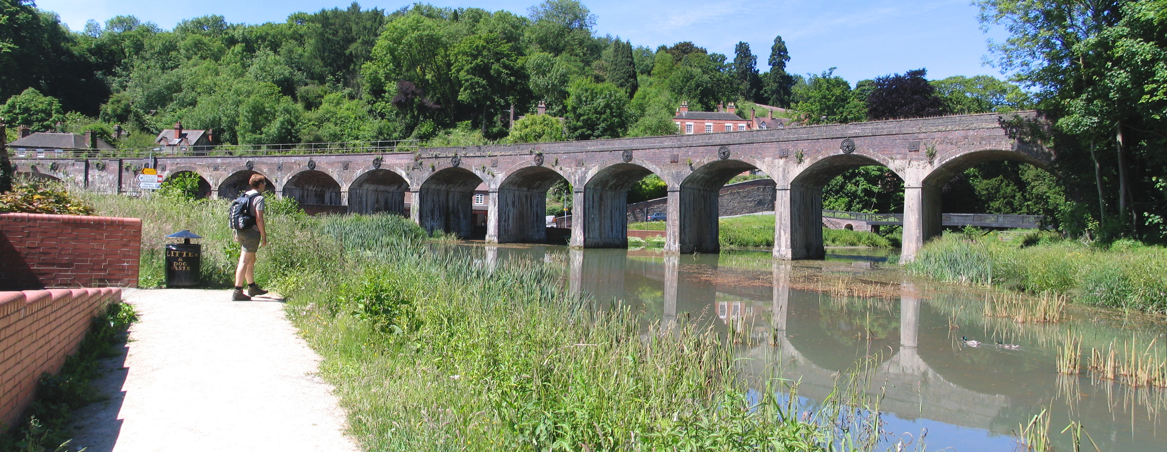 The Golden mile viaduct at Coalbrookdale near Ironbridge. It crosses a small lake, a road and an old ironworks (nowadays a museum) in an arc.